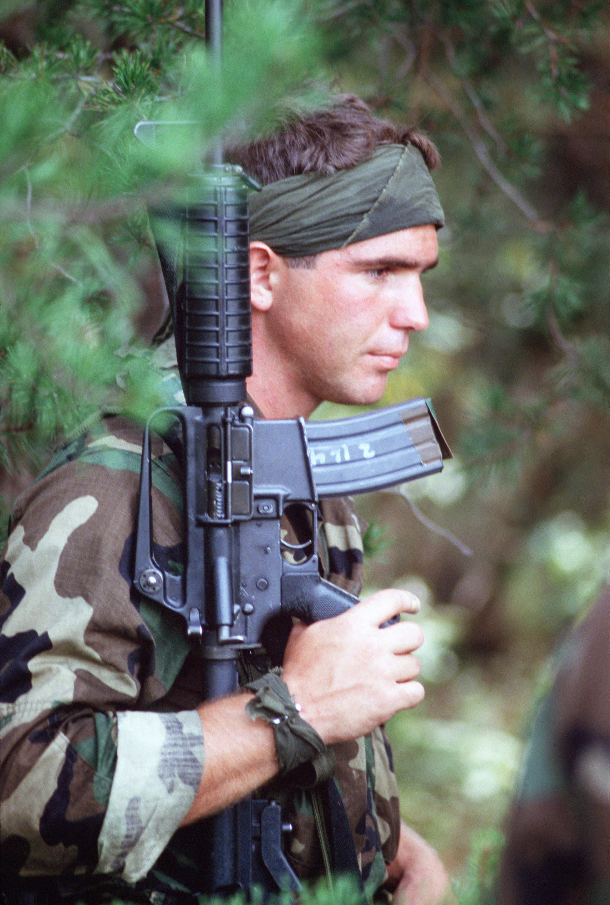 A Sea-Air-Land (SEAL) team member carries his Colt Commando assault rifle through the woods during a field training exercise.